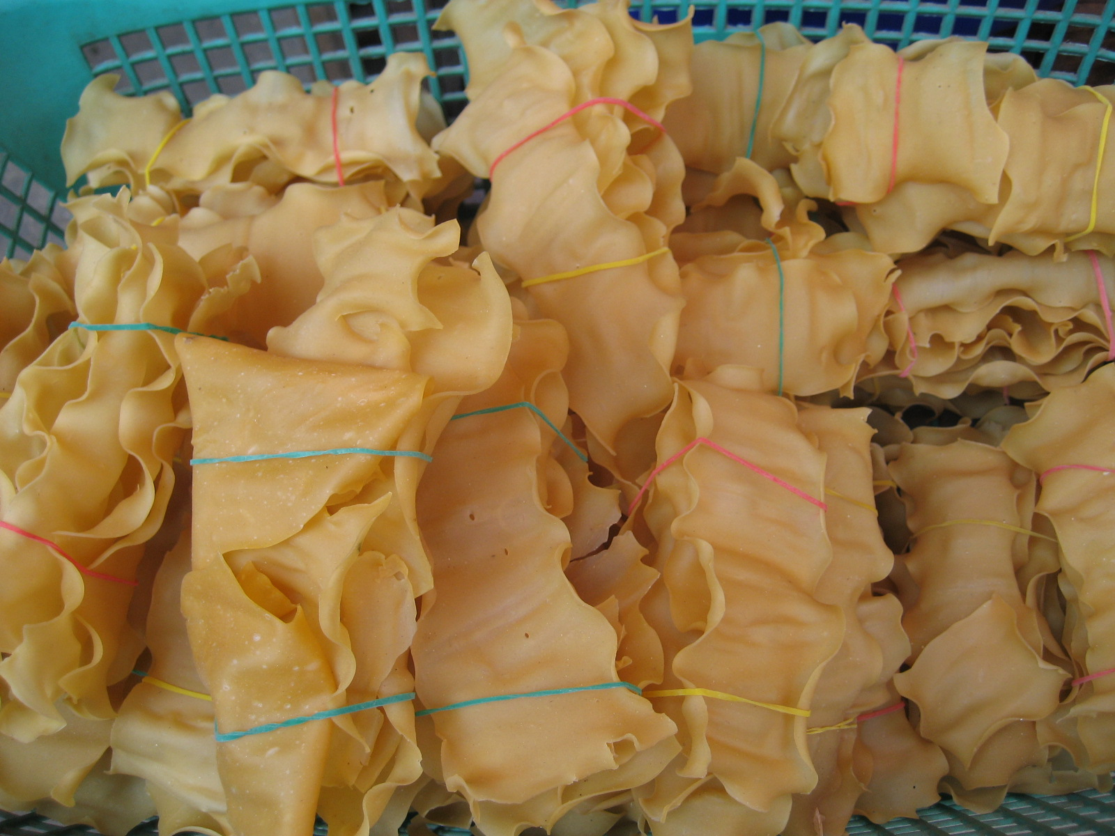 To hpu gyauk - Shan tofu crackers for deep frying, sold in bundles at the market in Pyin U Lwin, Myanmar.